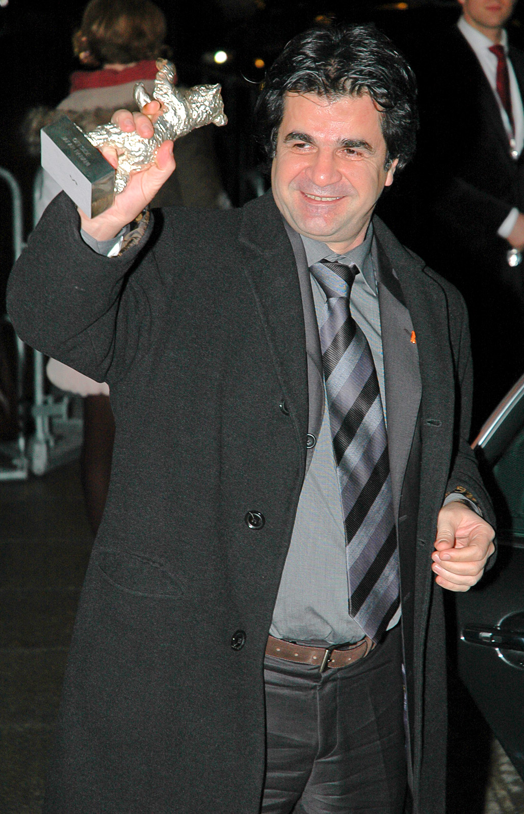 Iranian director Jafar Panahi at the 56th Berlinale 2006, winner of the Silver Bear for his film OFFSIDE